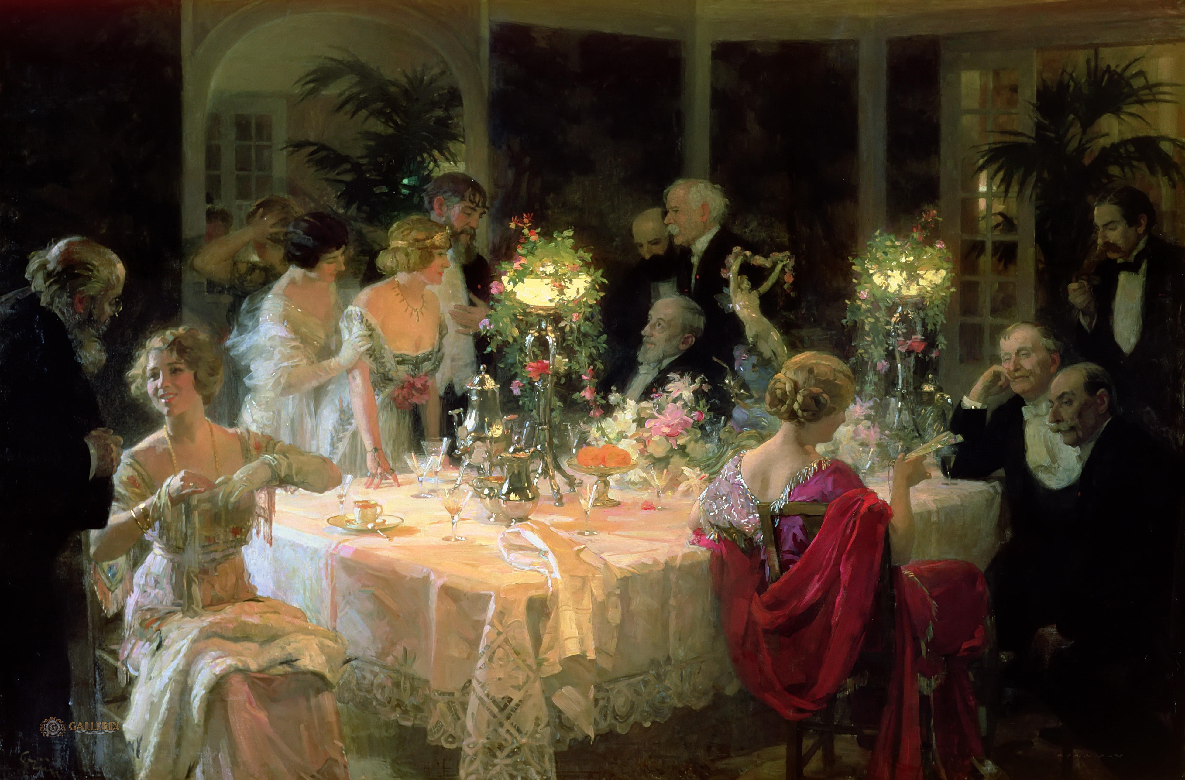 The end of dinner